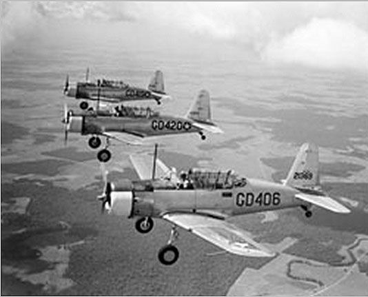 Greenwood Army Airfield - Flight of BT-15s